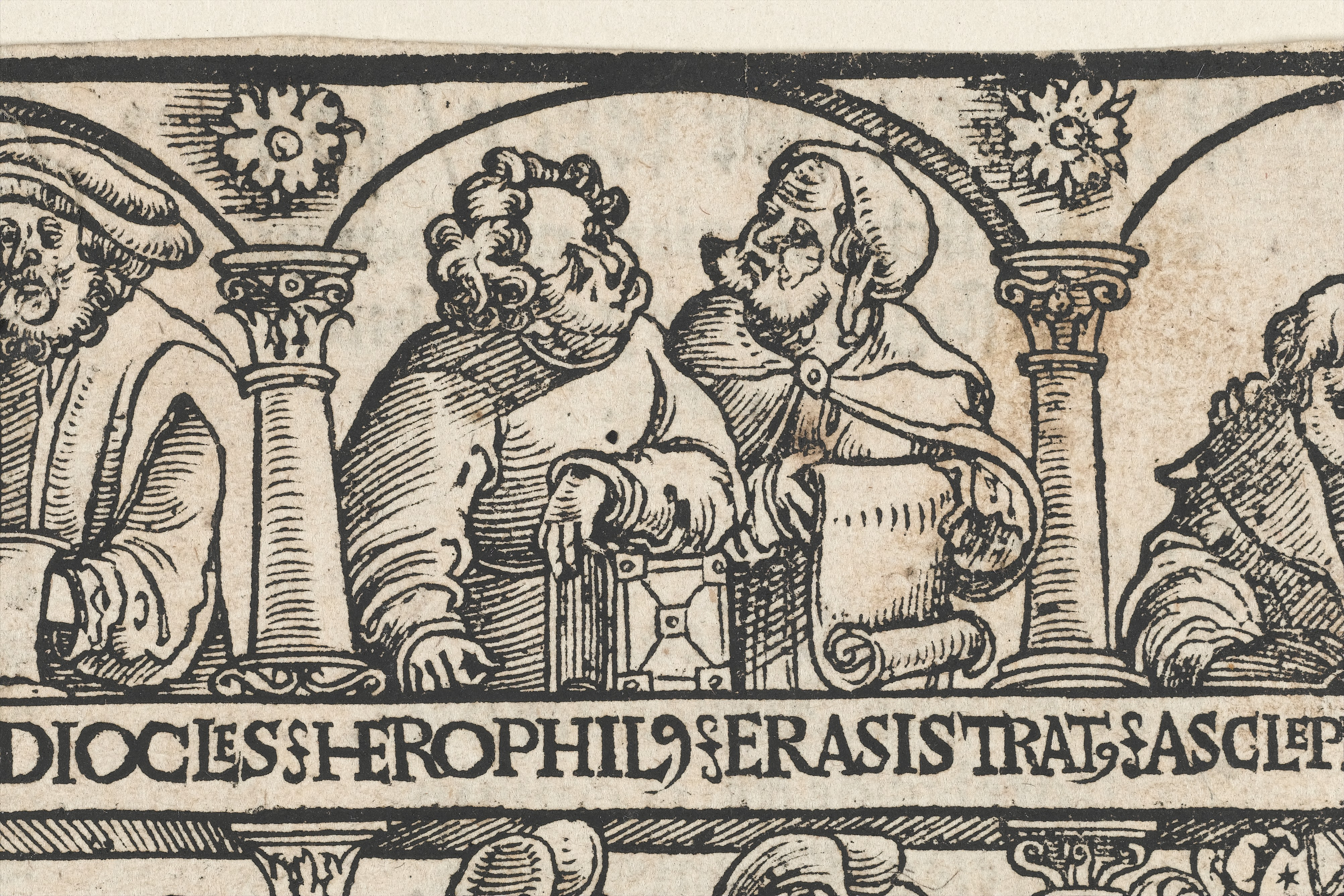 Detail of a Woodcut depicting ancient herbalists and scholars of medicinal lore "Herophilus and Erasistratus" The whole wood-cut (Galen, Pliny, Hippocrates etc.); and Venus and Adonis in the gardens of Adonis Wellcome Images Keywords: Portrait; Herbalist; Lorenz Fries; Portraits